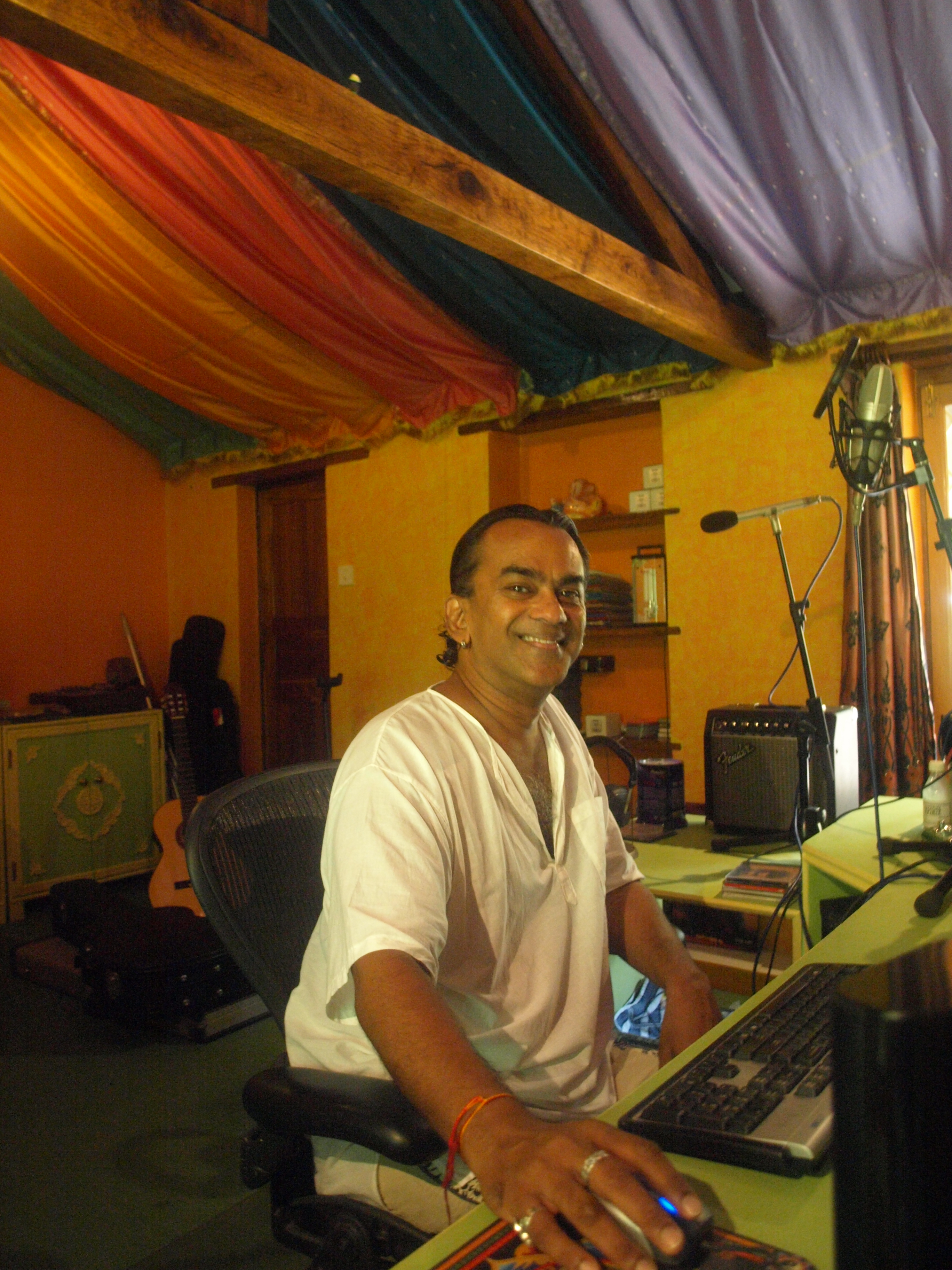 Remo Fernandes, prominent musician from Goa, photographed at his home-based recording studio in Siolim, Bardez, Goa.